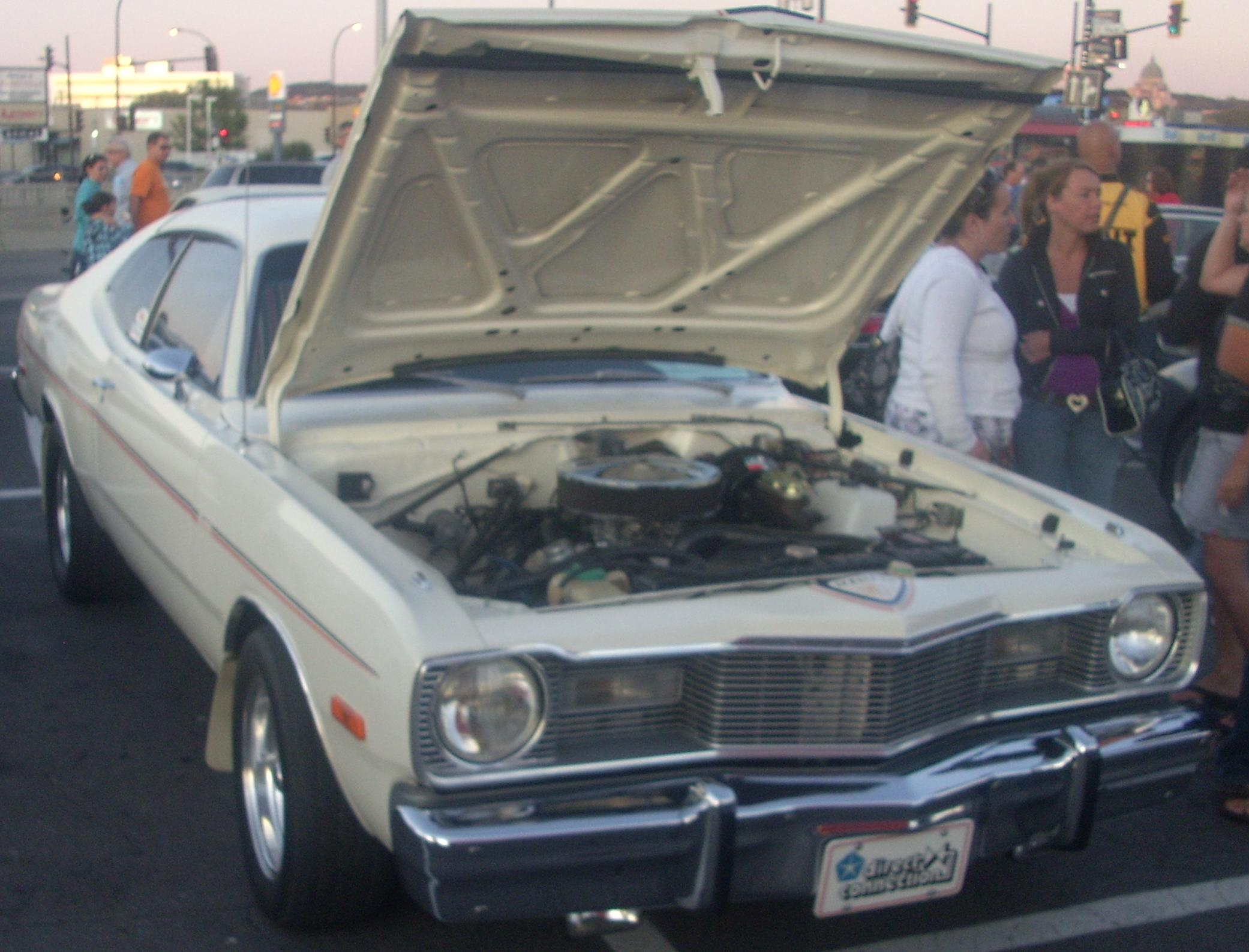 1975 Dodge Dart Hang 10 photographed in Montreal, Quebec, Canada at Gibeau Orange Julep.